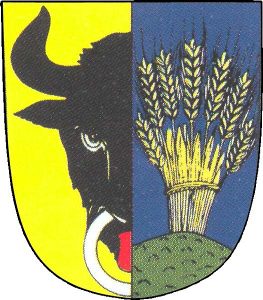 Municipal coat of arms of Němčice nad Hanou village, Prostějov District, Czech Republic.